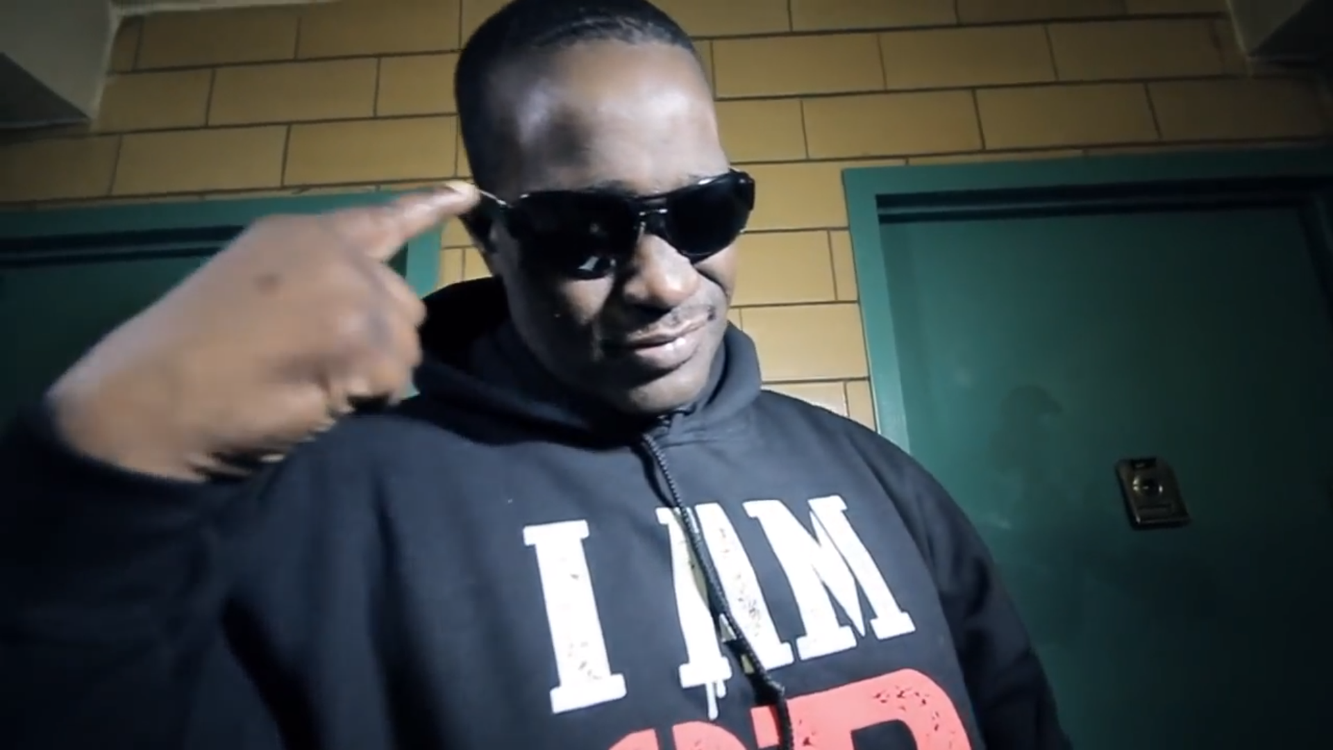 Screenshot of Blaq Poet from music video "Catch My Drift" by Ruc featuring Blaq Poet. Shot by Hostage Media.